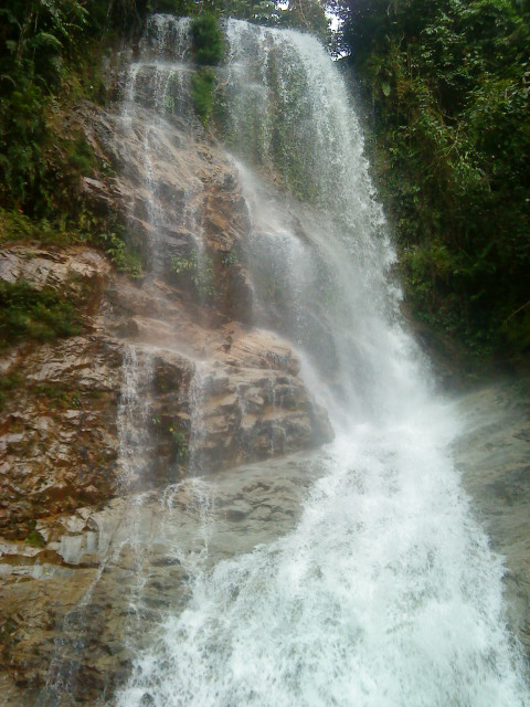 Waterfall, Hiking & River Trekking